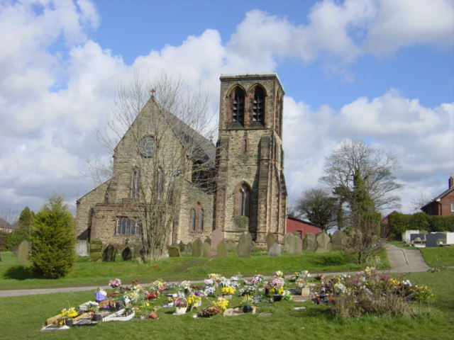 St Nicholas' parish church, Whiston, Merseyside, seen from the west. G.E. Street designed the church and intended tower to have a spire. Mining subsidence prevented from being added.